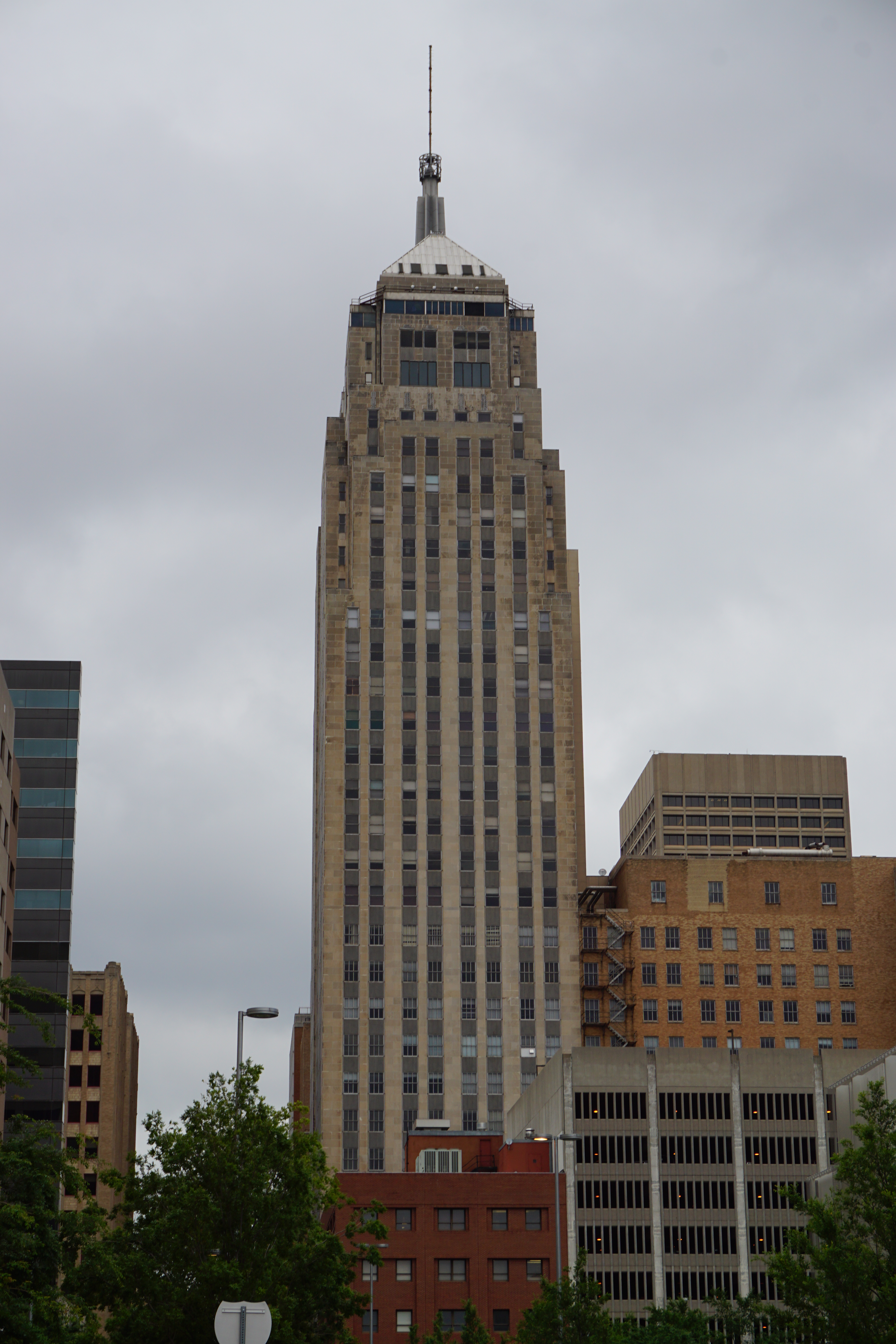 The First National Center in Oklahoma City, Oklahoma (United States).